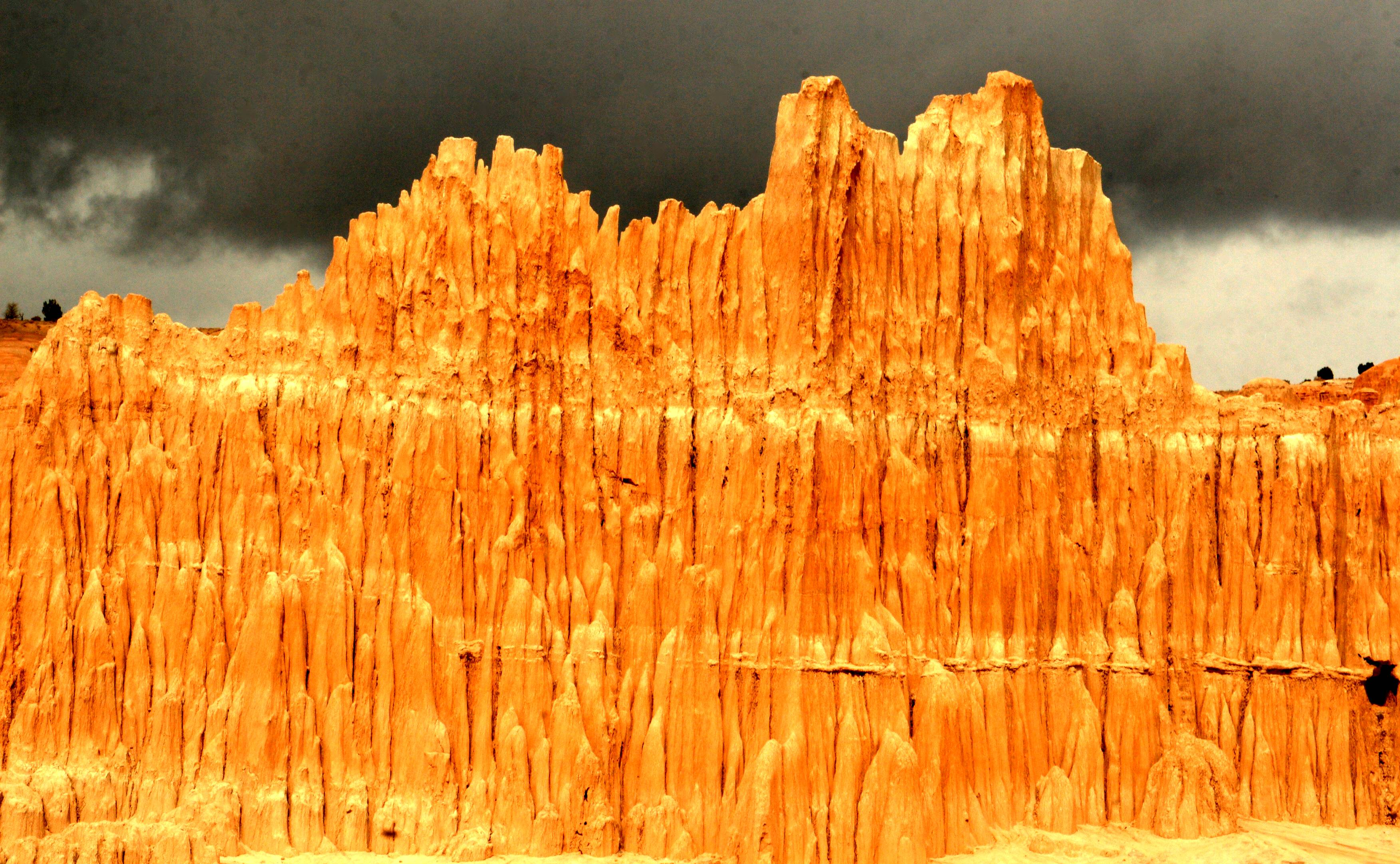 Cathedral Gorge State Park — about 80 miles south of Great Basin National Park in eastern Nevada and 80 miles west of Cedar City, Utah. Cathedral Gorge was formed by lake that dried up many years ago and wind and rain carved out the canyon. It is a little out of the way but well worth a detour. I took this photo on a snowy, cold day in October 2008.